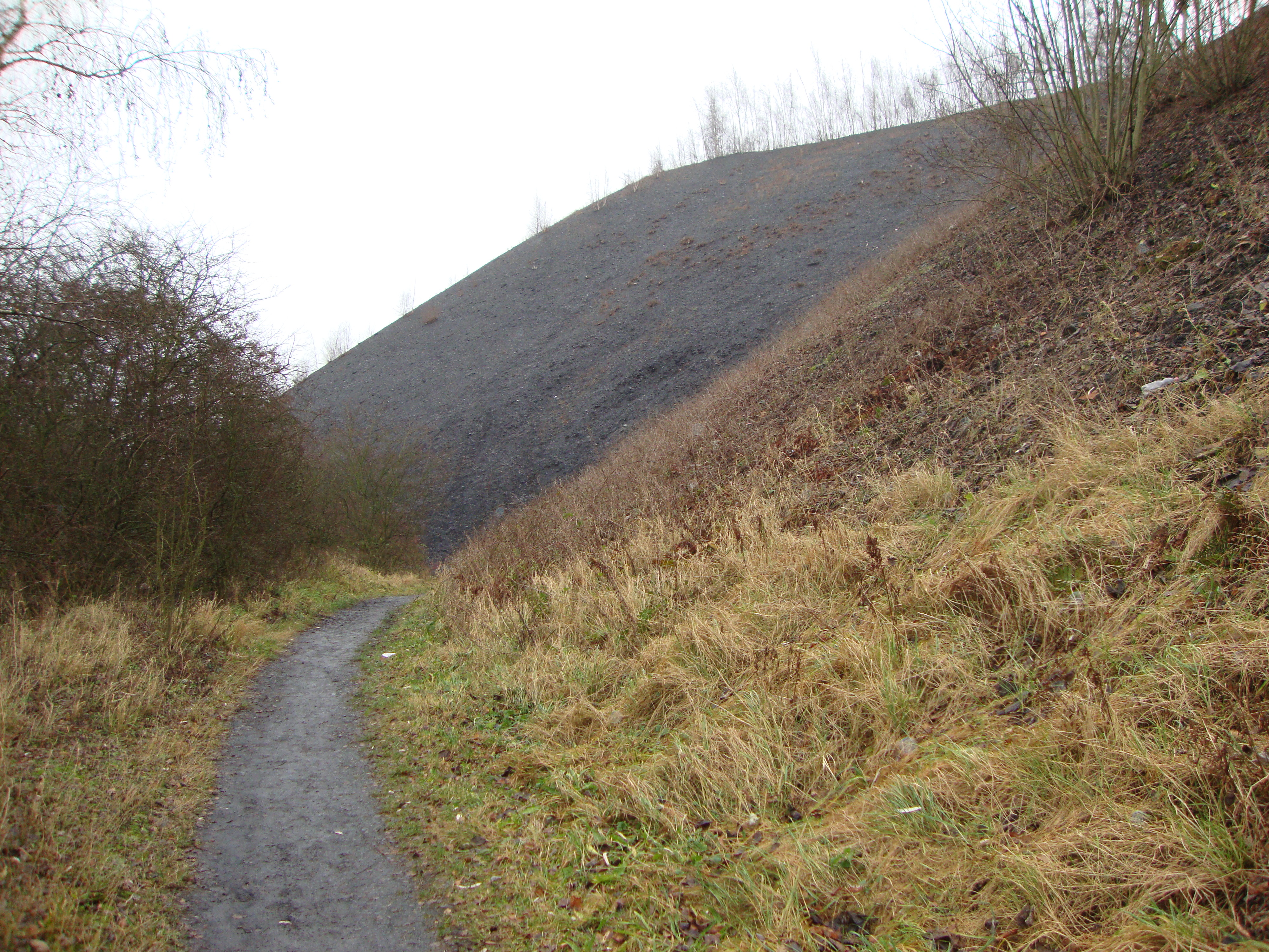 Slag heap in Blegny Belgium. Viewed from the bottom.